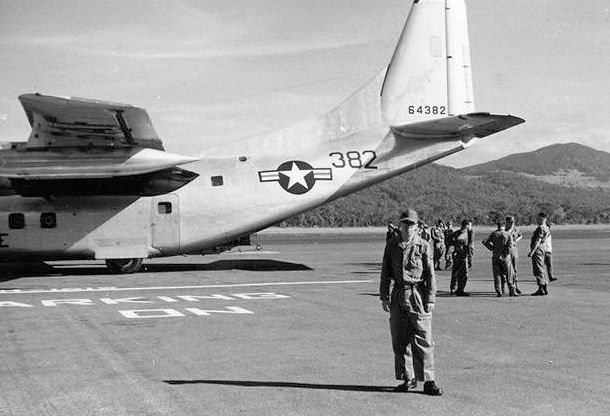 Mule Train Fairchild C-123B-19-FA Provider 56-4382 Aircraft was destroyed on ground by VC mortar attack on Tan Son Nhut, SVN Apr 13, 1966. Was with 315ACW